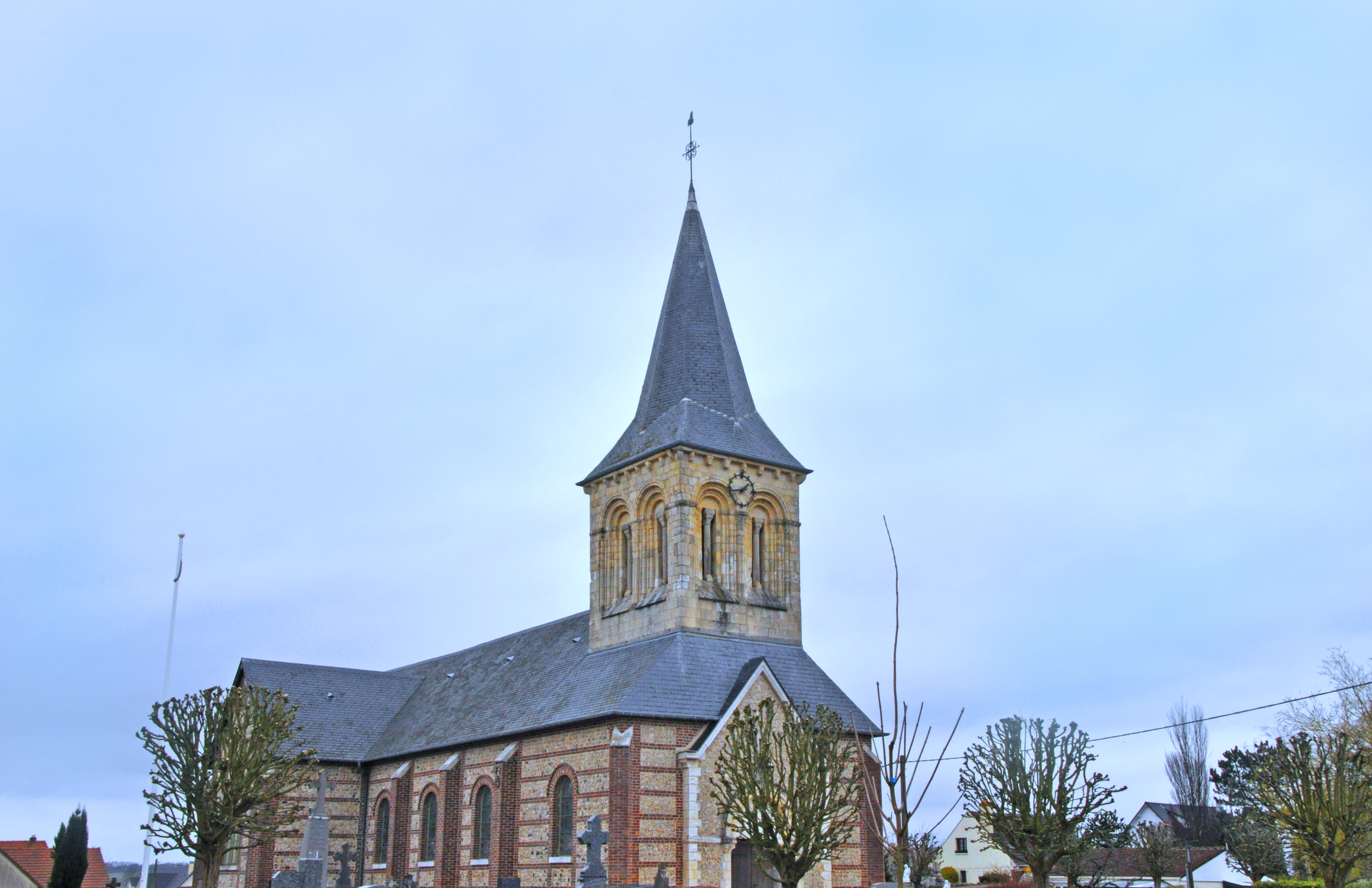 Church Notre Dame de l'Assomption (Mannevillette, Normandy, France)